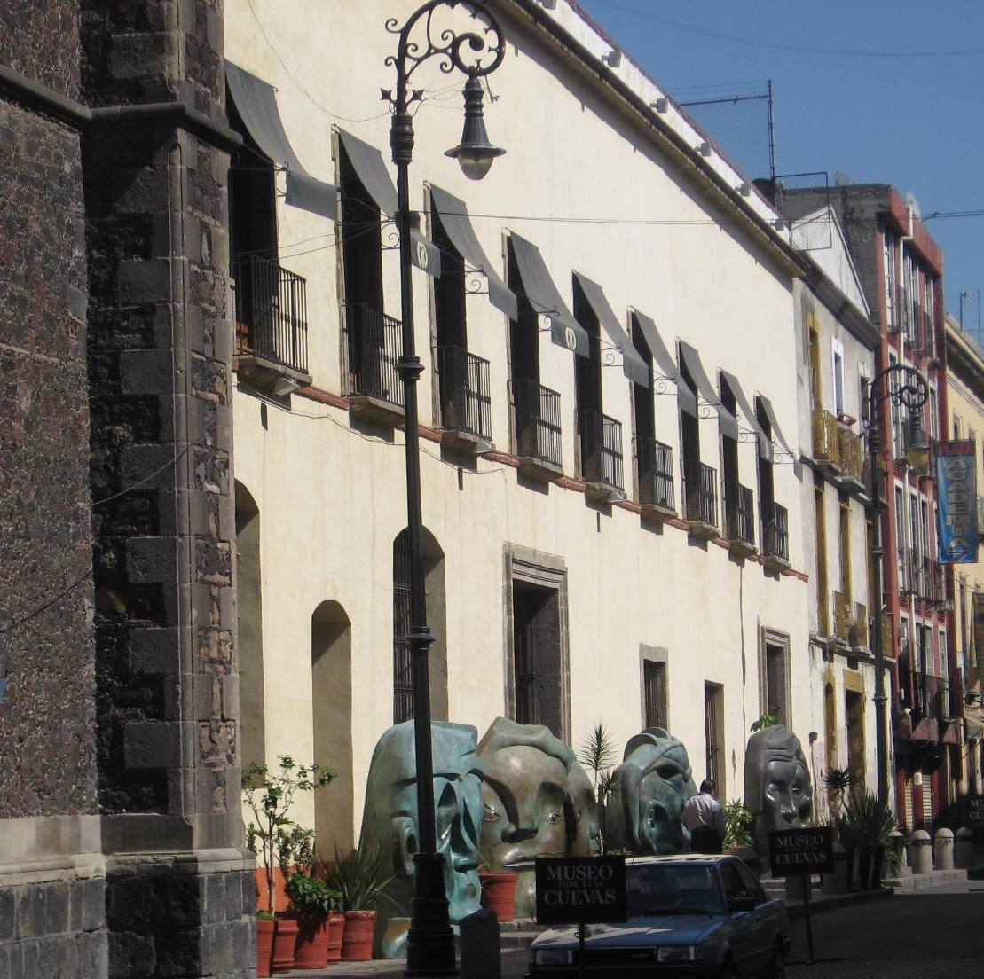 Jose Luis Cuevas Museum on Academia Street in the historic center of Mexico City